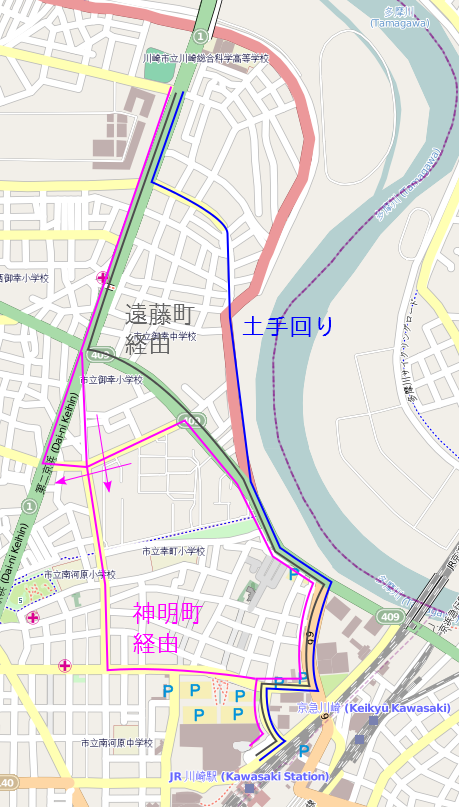 The map with bus route between Kawasaki Station and Toshiba Science Museum.